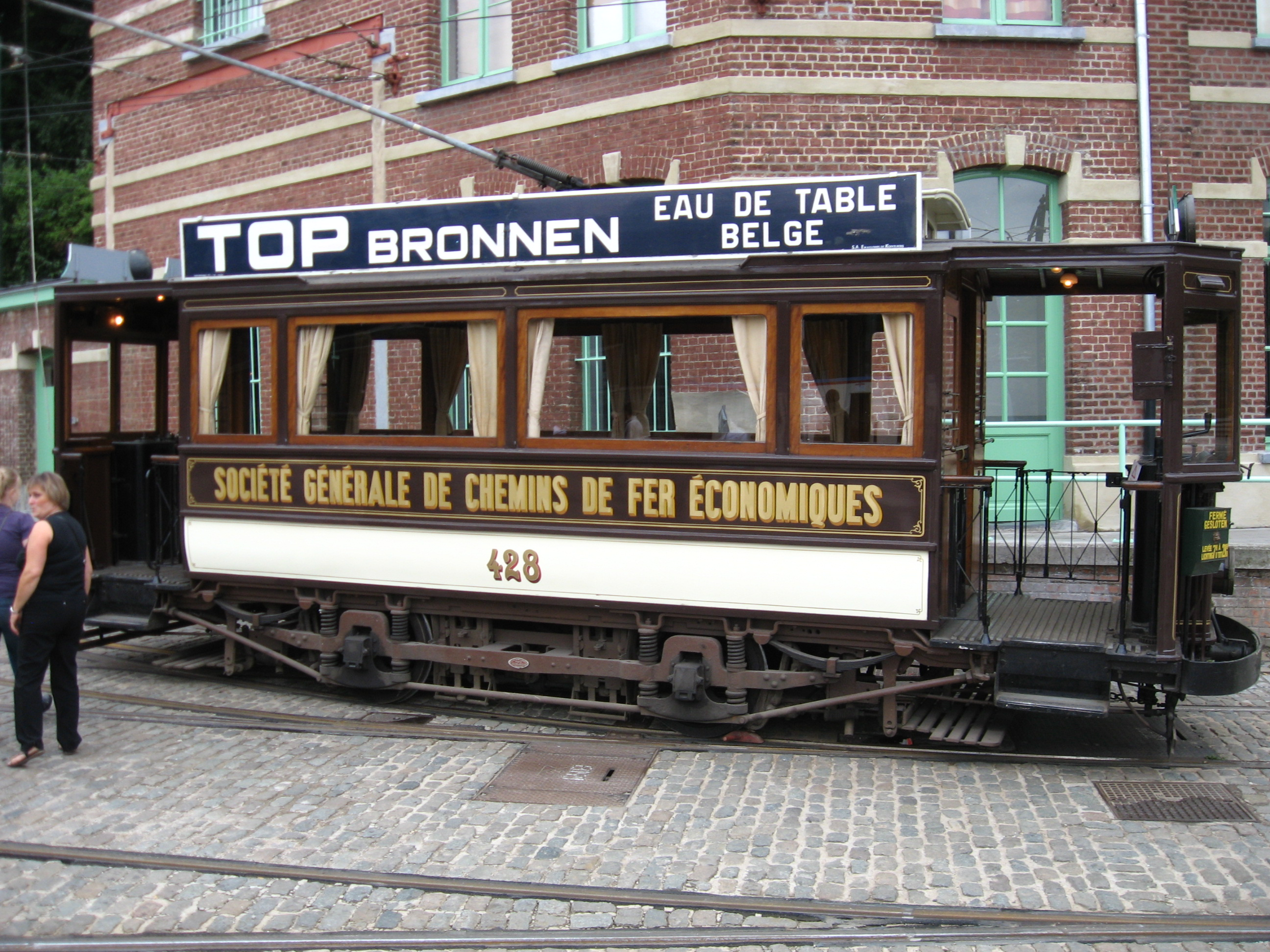 Heritage tram Ready for departure at the Brussels trammuseum. This is a tram of the compagny "Societé Général des Chemins de fer économiques".